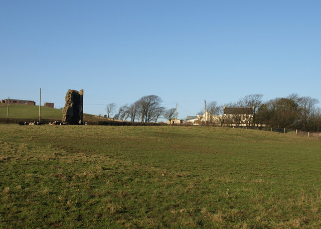 Montfode Castle and Farm, Ardrossan